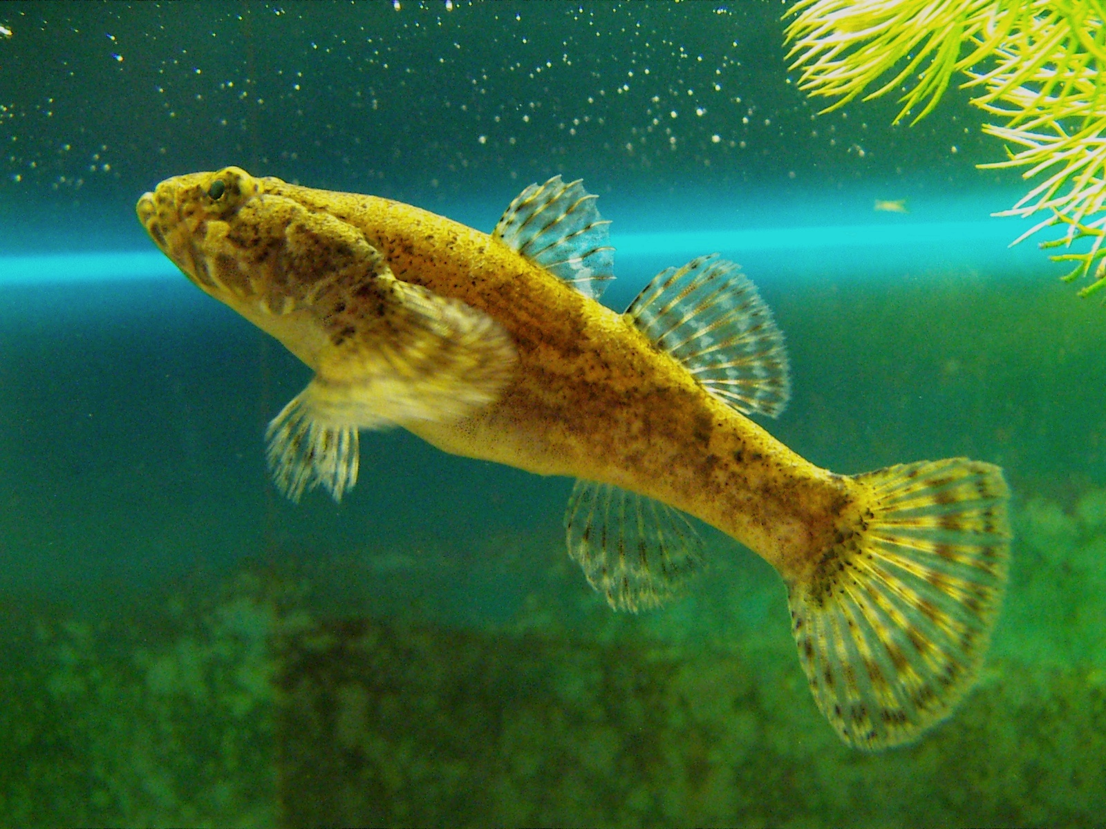 Odontobutis obscura (Temminck et Schlegel, 1845), at Saga.